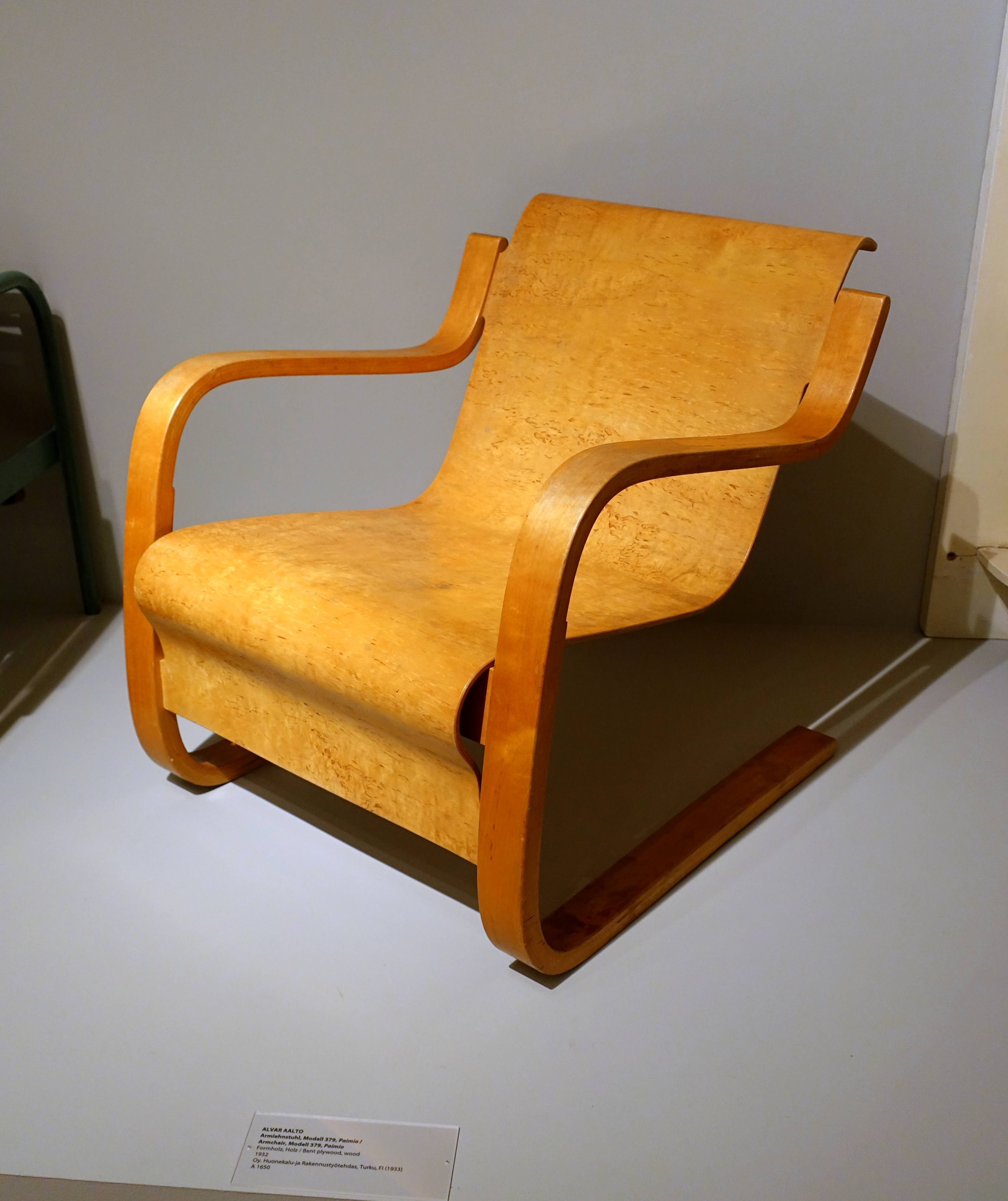 Armchair, Model 379, Paimio, designed by Alvar Aalto, O.y. Huonekalu-ja Rakennuslyllehdas A.b., Turku, Finland, 1932, bent plywood, wood. Exhibit in the Museum für Angewandte Kunst Köln - Cologne, Germany. As a utilitarian object, this work is NOT subject to copyright laws. In Finland, the EU, and Russia, design rights are granted for a maximum of 25 years. This protection period has passed, and hence this work is now in the public domain.